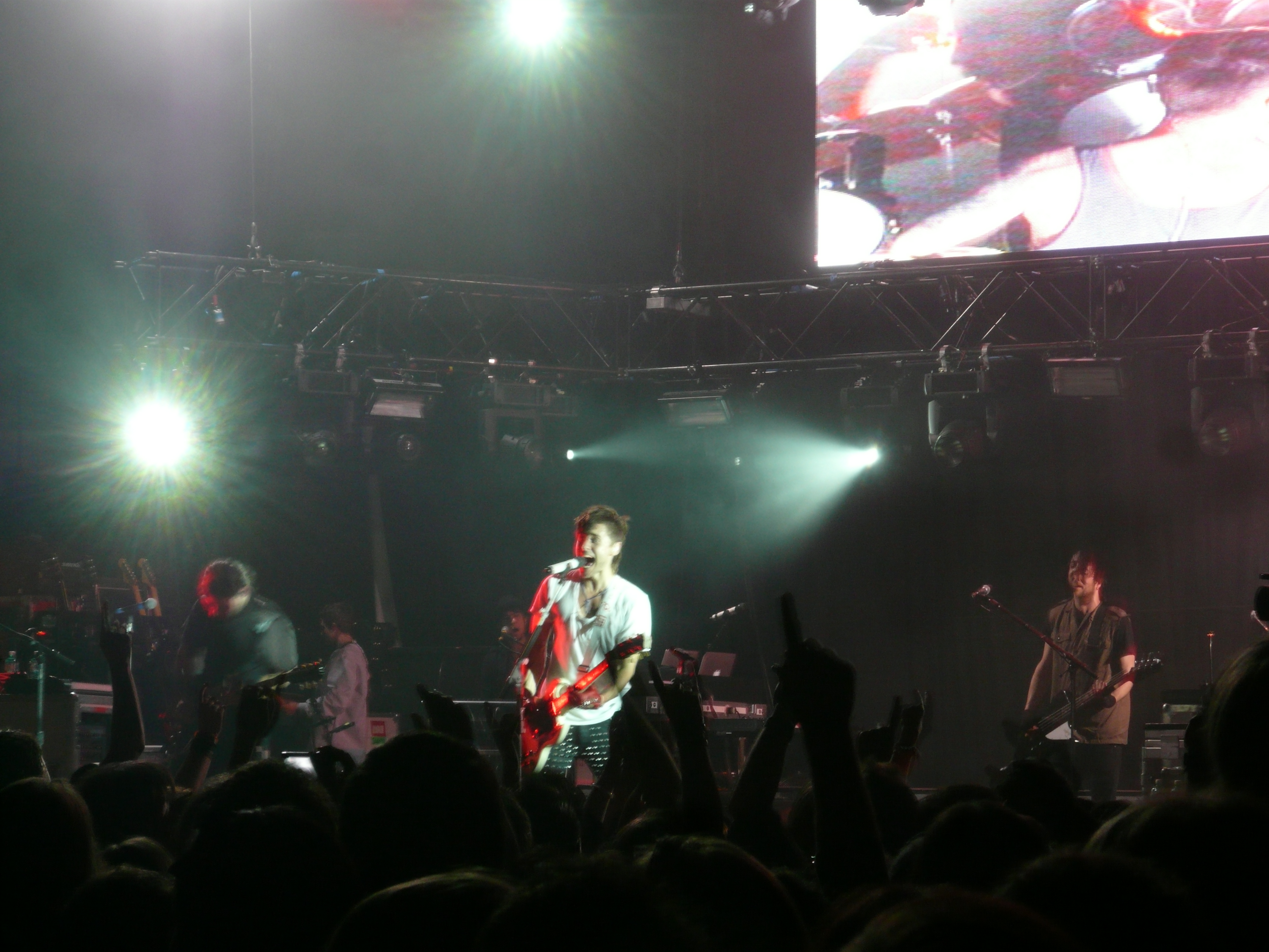 Thirty Seconds to Mars at Zürich Volkshaus on March 23, 2010.